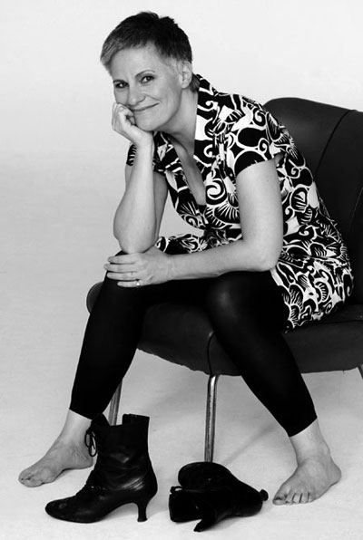 Jutta Masurath